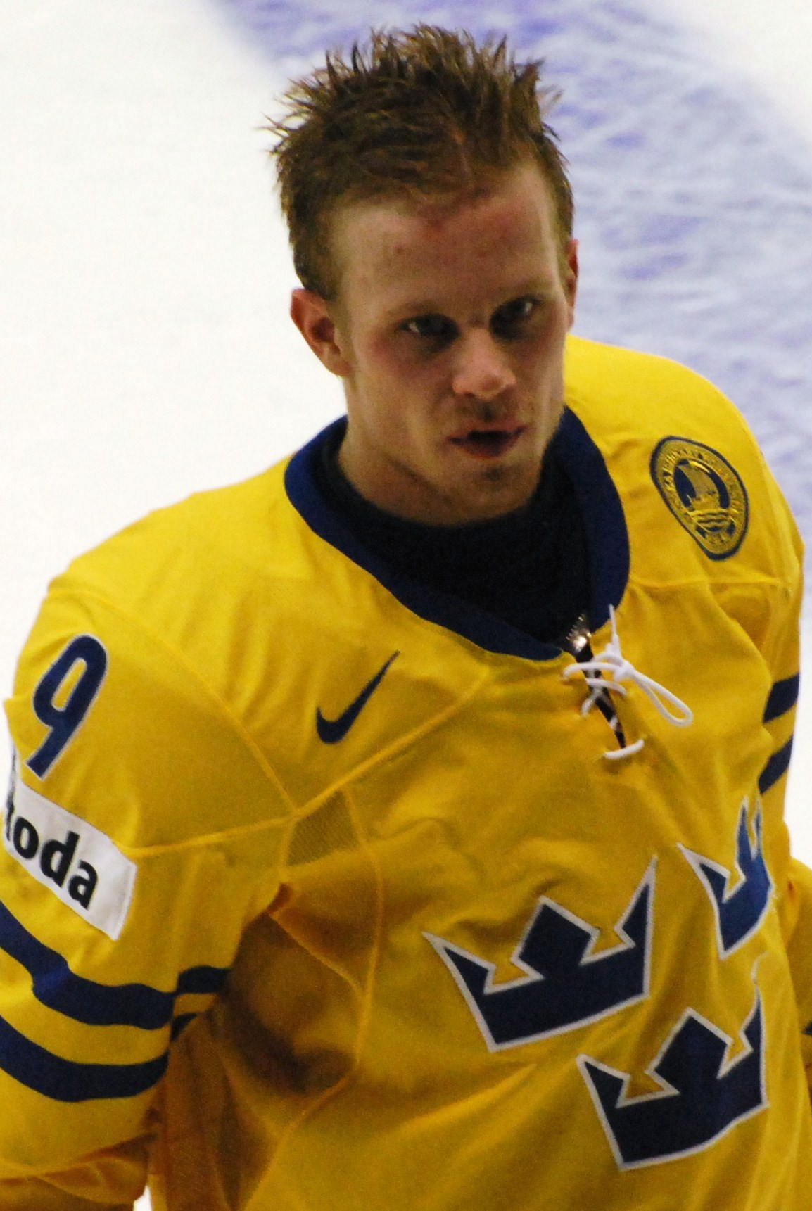 Mattias Tedenby after a game against Russia during the 2010 World Junior Championships.